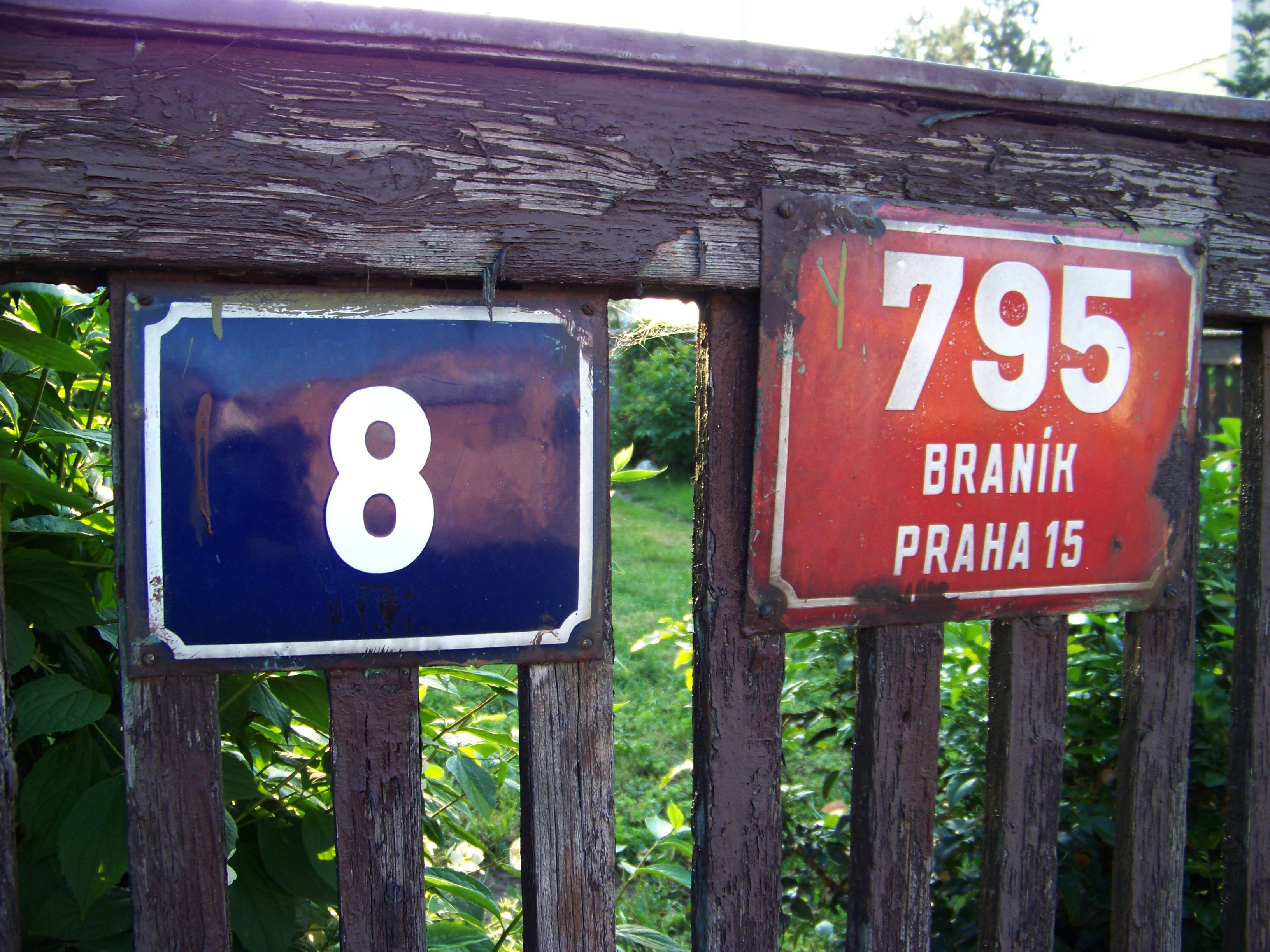 Prague-Braník, the Czech Republic. Na Zemance 795/8, house numbers.